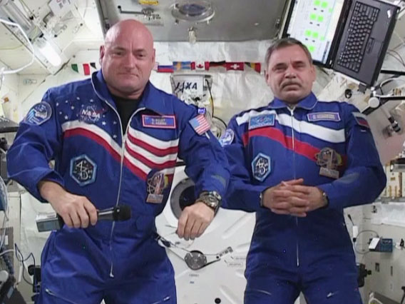 Expedition 43 Astronaut Scott Kelly and Cosmonaut Mikhail Kurnyienko inside the ISS's Japanese Kibo lab module